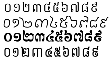 This image depicts the Khmer numerals in four differing typographical variations: standard, fasthand/freehand, Muol, and a secondary standard variation.